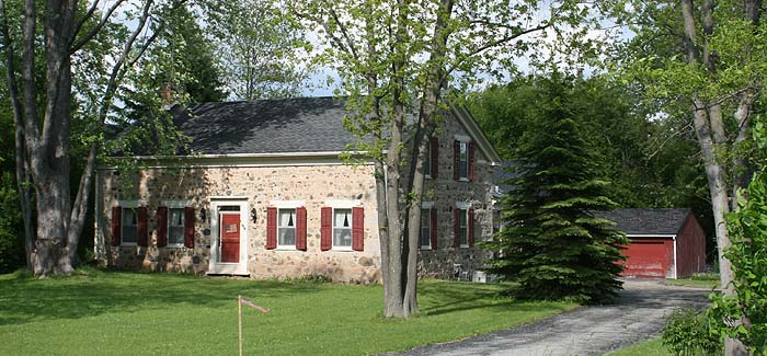 The O'Brien-Peuschel Farmstead, a National Registered Historic Place, in Mequon, Wisconsin.